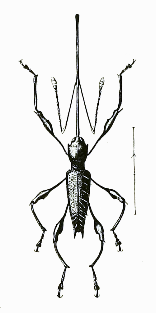 Atenistes denticollis